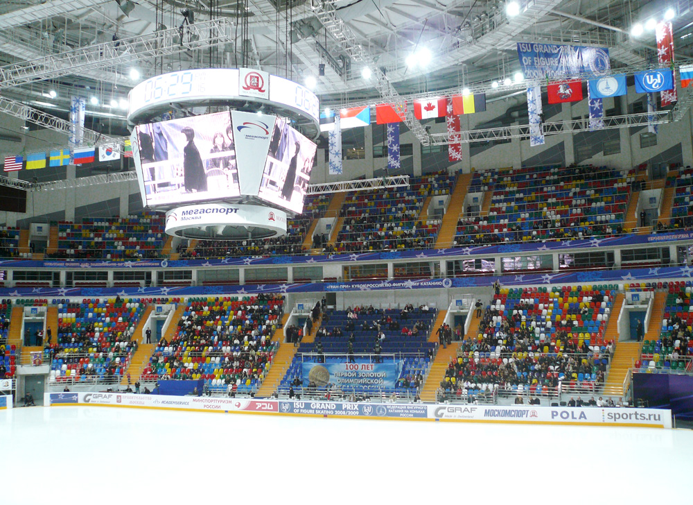 Cup of Russia, held in Khodynka Arena in 2008.